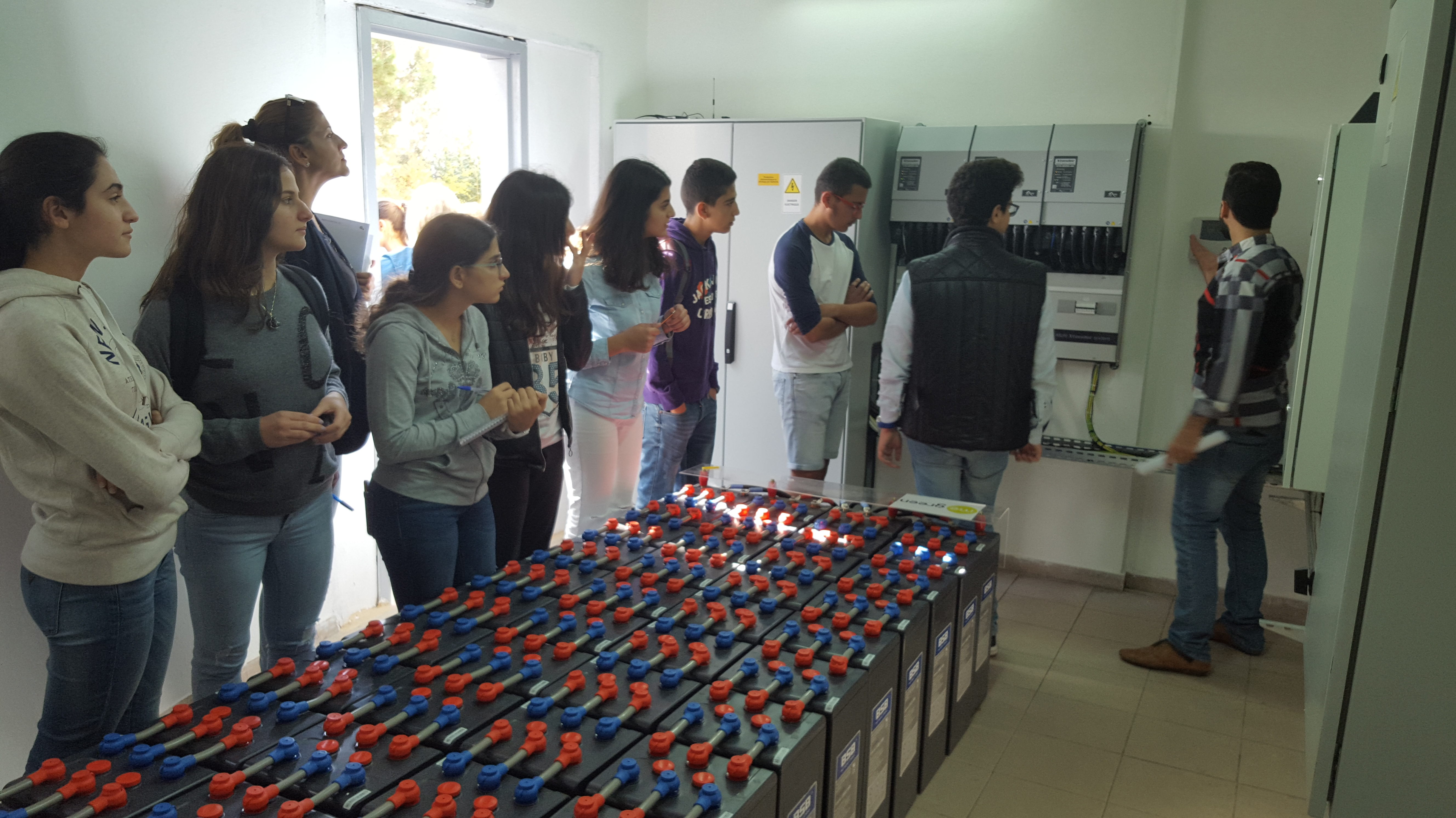 Photovoltaic power station of the "Lycée franco-libanais Habbouche-Nabatieh" (French-Lebanese high school).